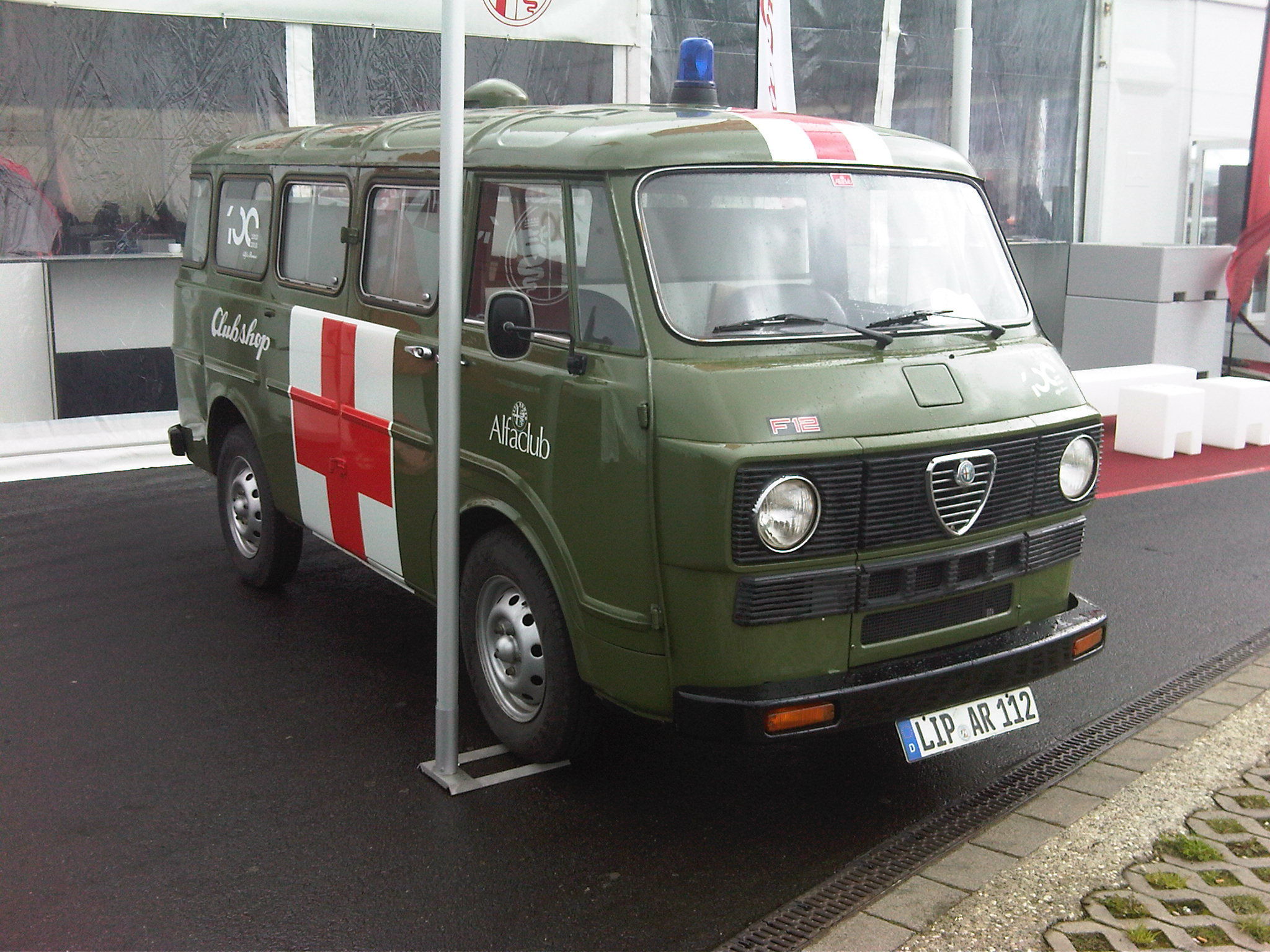 Alfa Romeo Autotutto F12 as ambulance (inline-four engine of 1290 cc) (39. AvD Oldtimer-Grand-Prix, Nürburgring 12.-14.08.2011). This version is the facelift model, built between 1977 and 1983.